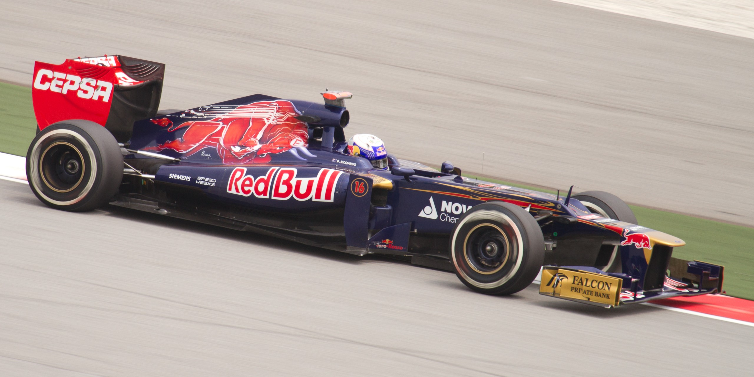 Formula One 2012 Rd.2 Malaysian GP: Daniel Ricciardo (Toro Rosso) during the second practice session on Friday.